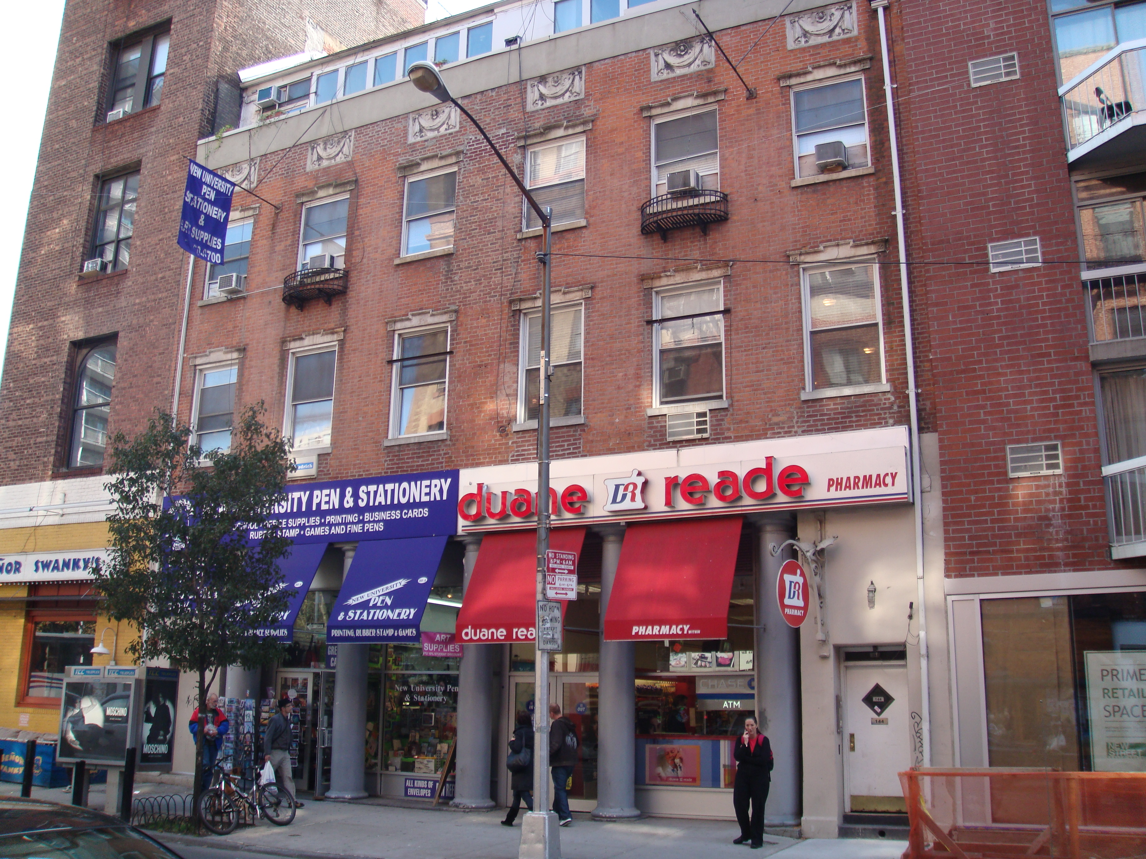 This photo is of Wikis Take Manhattan goal code F26, Bleecker Street Cinemas.